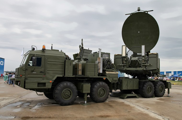 The Krasukha-2 Electronic Warfare System has set up its supports